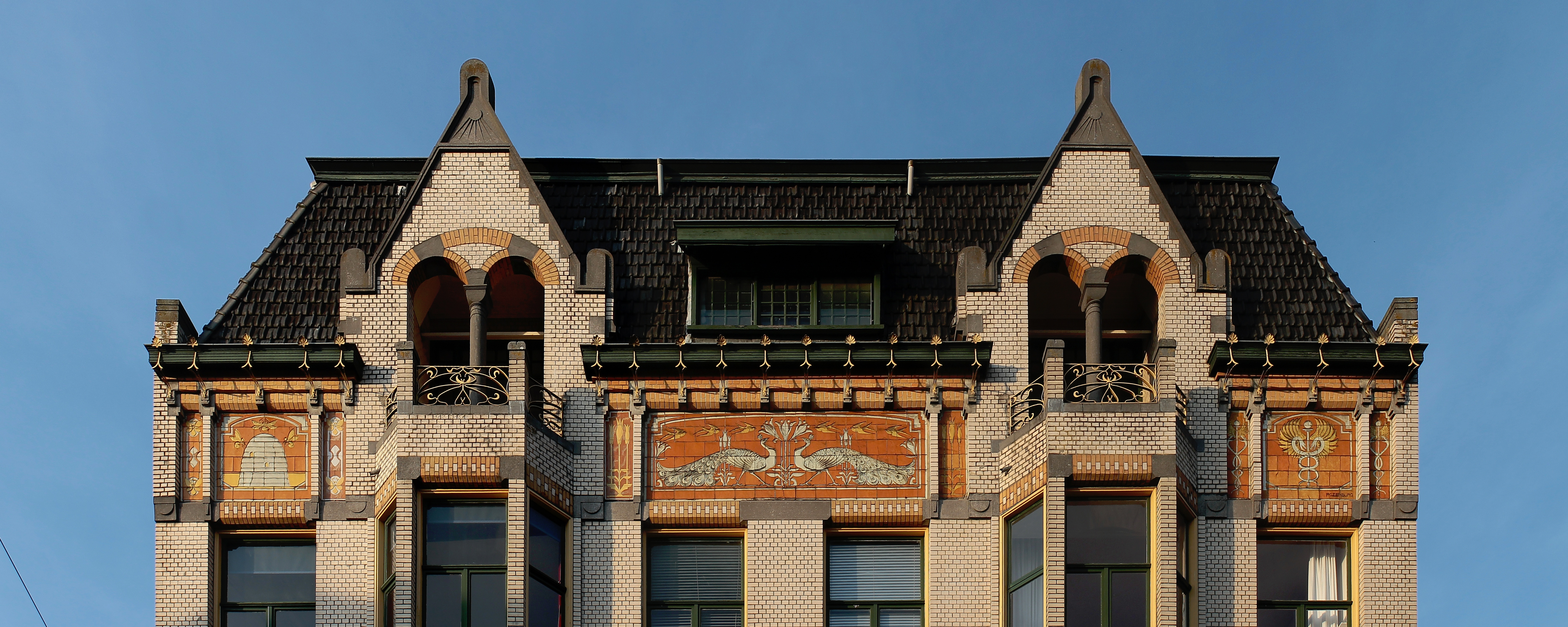 Top floor of a building in Art Nouveau style (1904-1905) in the Dutch city of Groningen. The tile tableau was created by the Haagsche Plateelbakkerij Rozenburg.